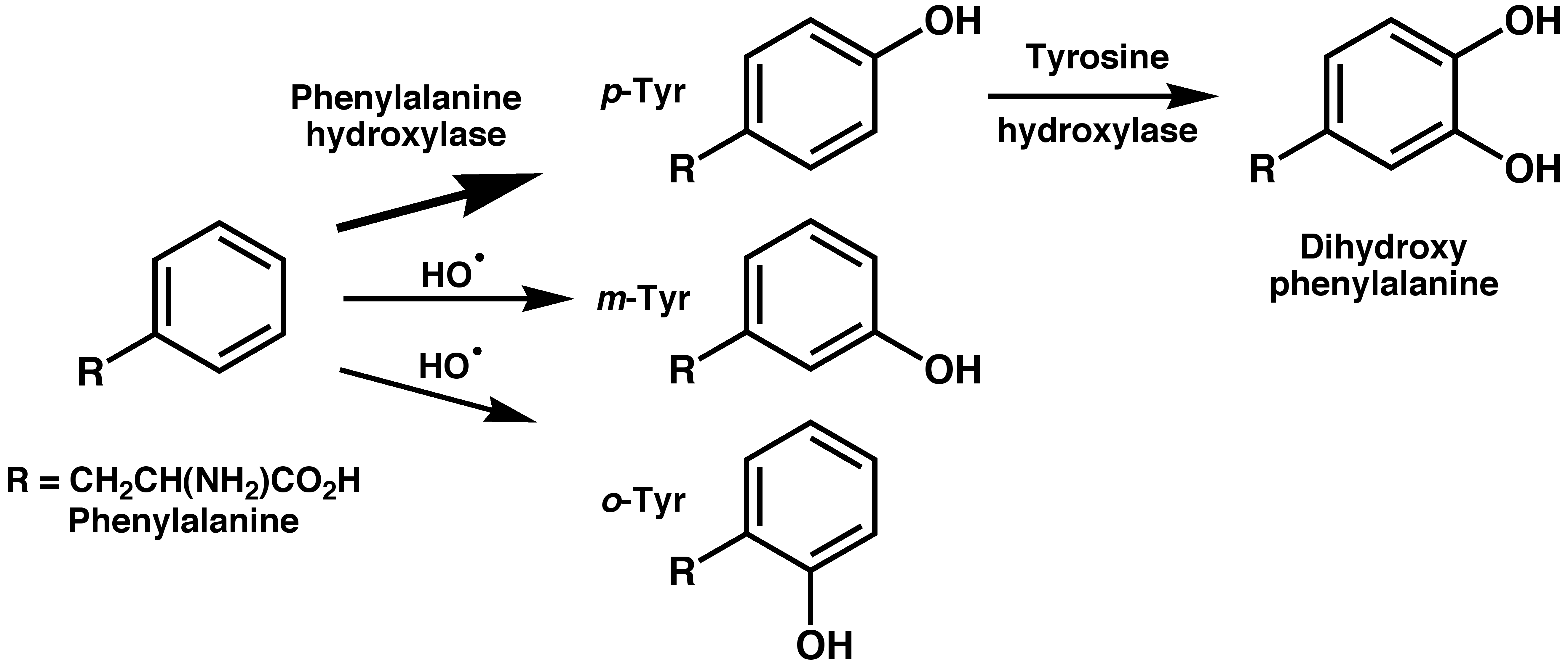 Created myself using Cambridgesoft ChemDraw